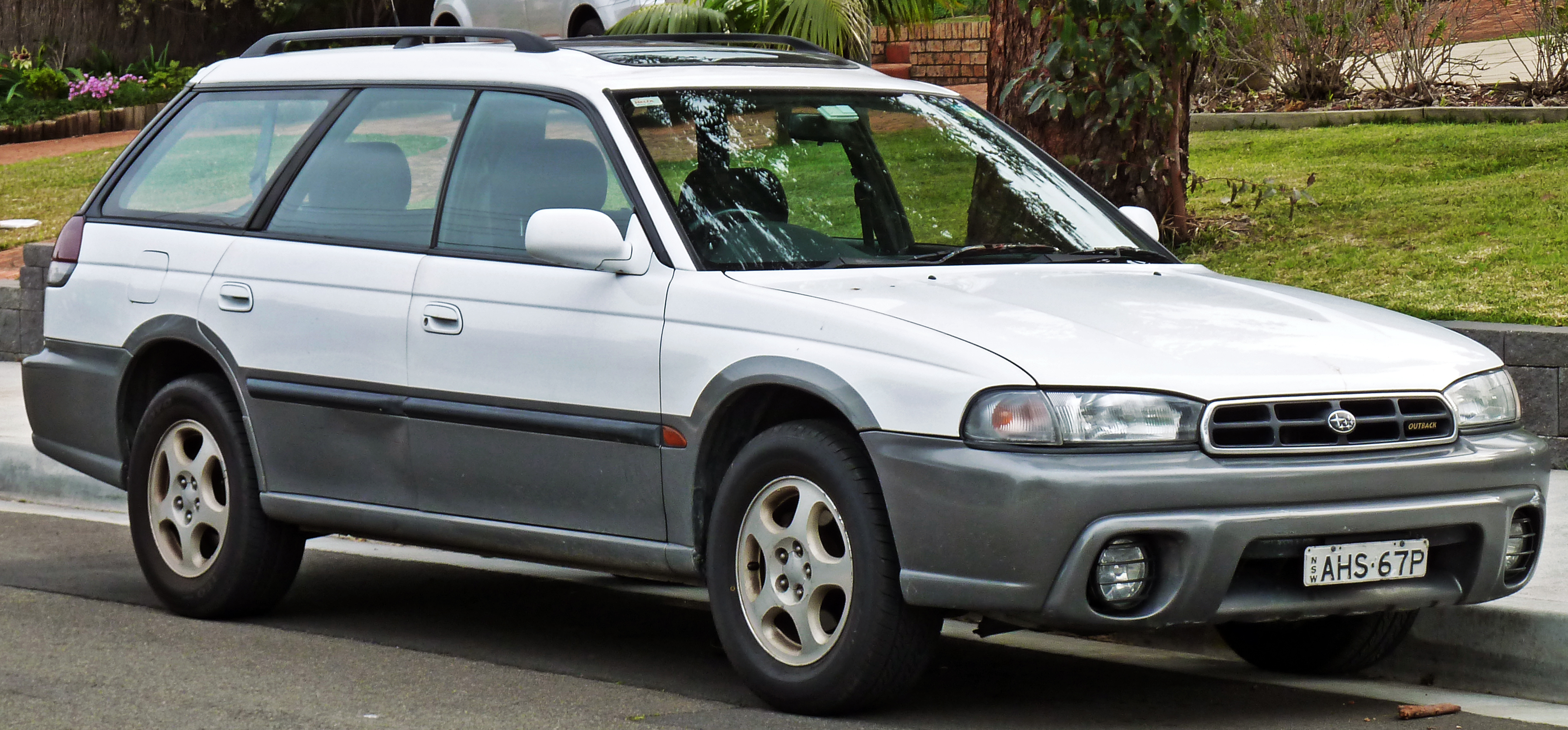 1998 Subaru Outback (BG9 MY98) Special Edition station wagon. This has been listed as a Special Edition due to the sunroof fitted. Photographed in Taren Point, New South Wales, Australia.